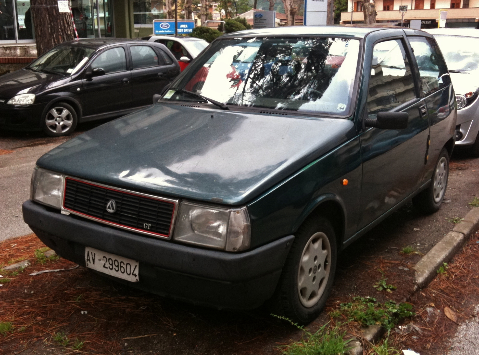 Autobianchi Y10 GT front